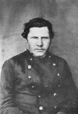 A picture of Icelandic author Jón Thoroddsen elder (1818/1819 - 1868).